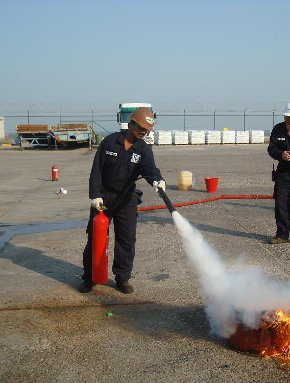 CO2 extinguisher